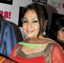 Pratibha Sinha at 'GR8! Women Awards 2013'